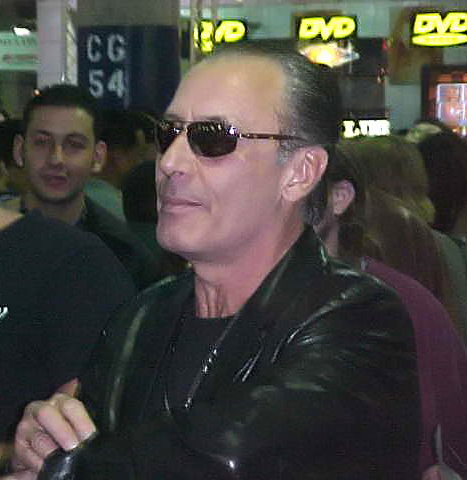 American pornographic actor and director, John Leslie